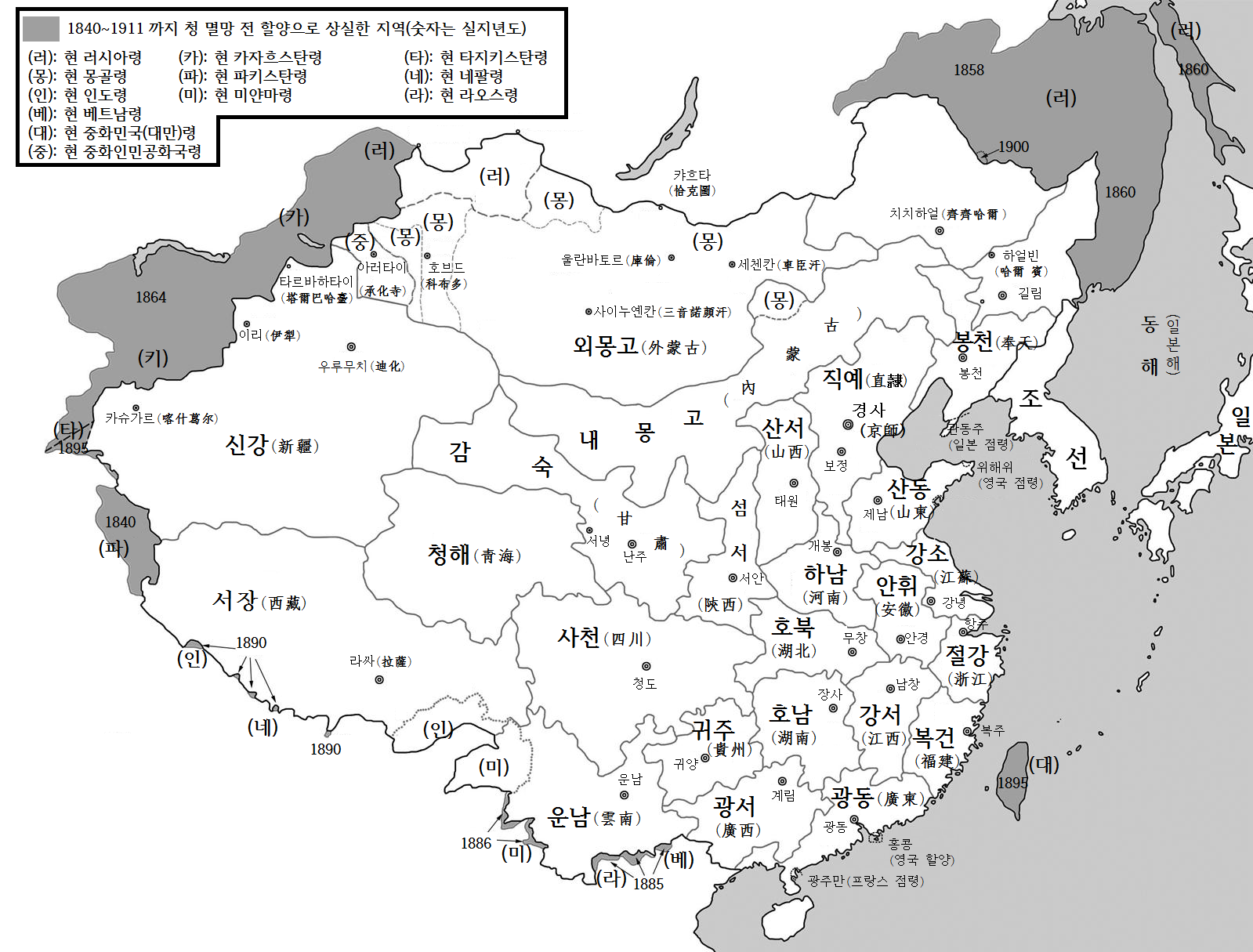 Map - Qing Dynasty - koren